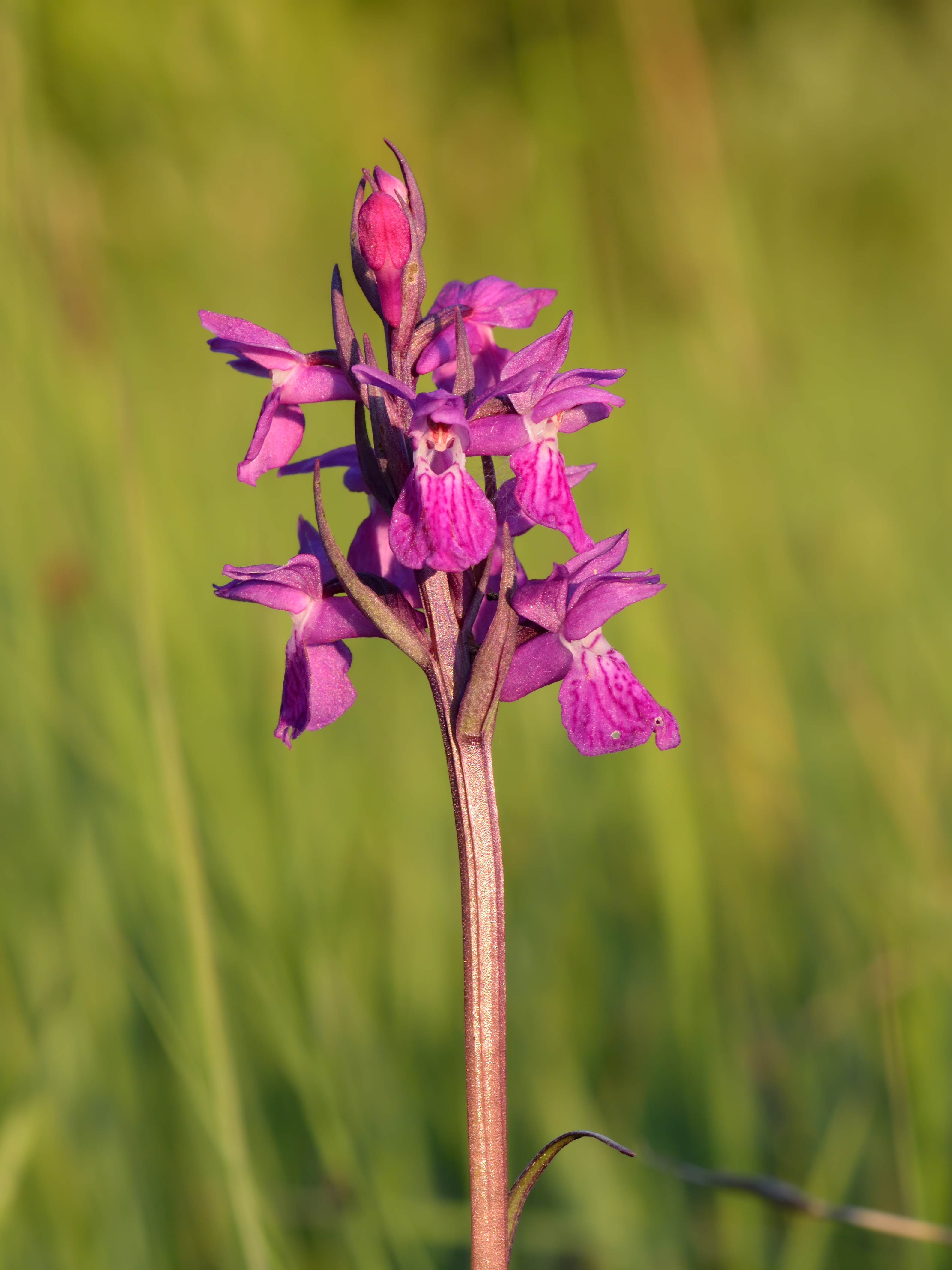 Inflorescence of the narrow-leaved marsh-orchid (Dactylorhiza russowii). Niitvälja Bog, Northwestern Estonia.